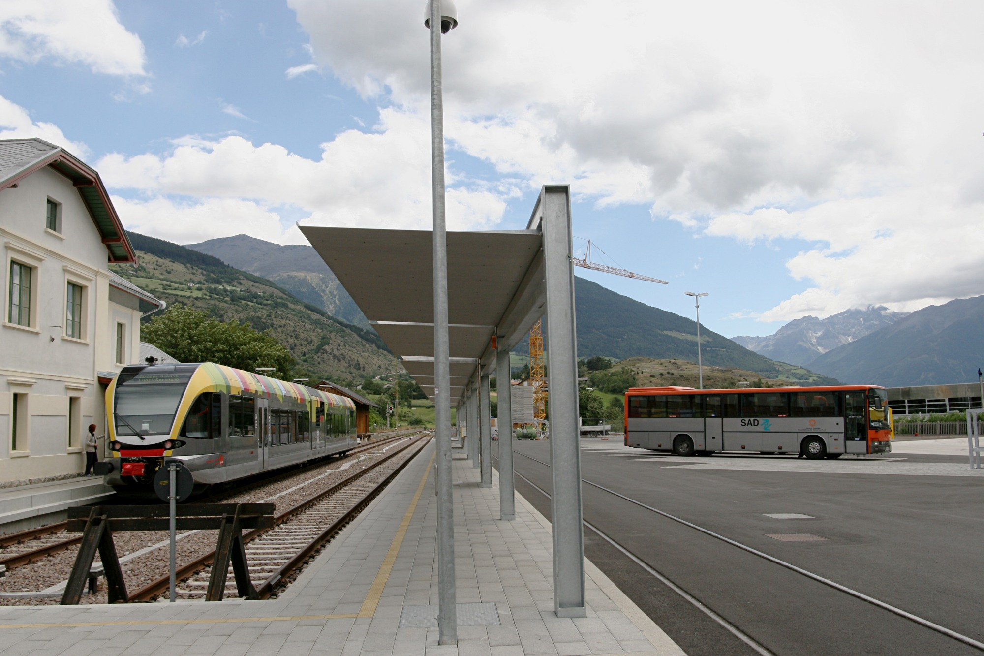 Mals station was rebuilt as an interchange terminal between railway and regional busses.